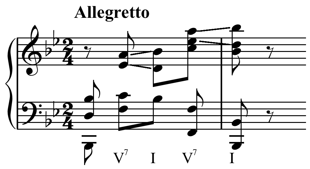 Dominant seventh tritone resolution in Beethoven's (1770–1827) Piano Sonata in B-flat major, Op. 22 (1800).